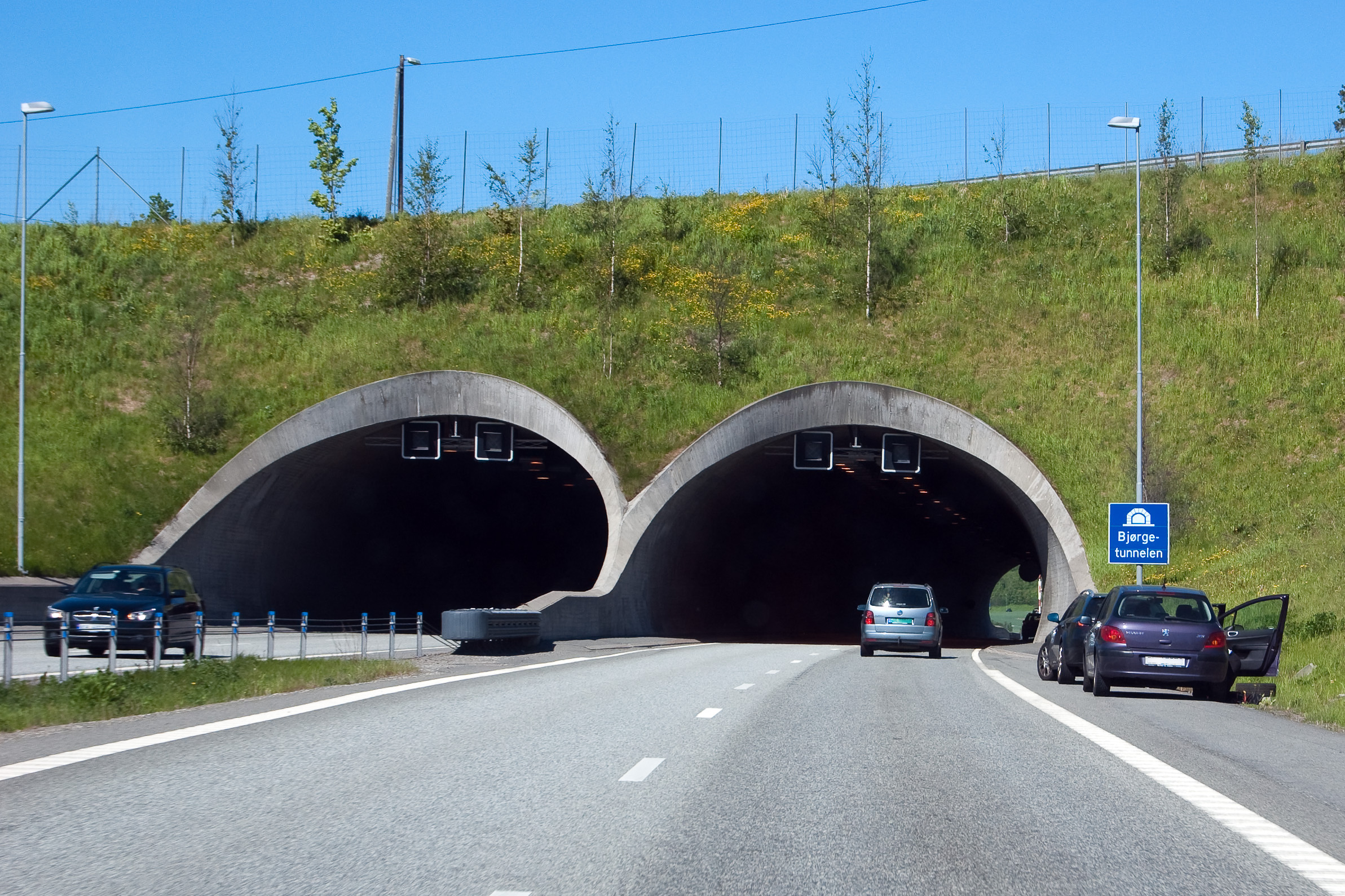 Bjørgetunnelen, a road tunnel on E18 in Vestfold, Norway.